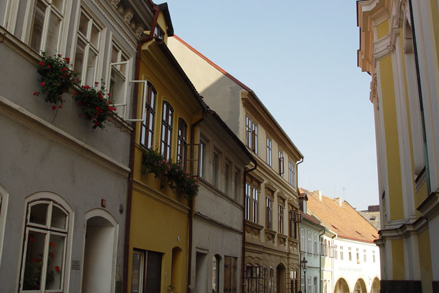 Úštěk (German name: Auscha), city in Northern Bohemia, Czech Republic